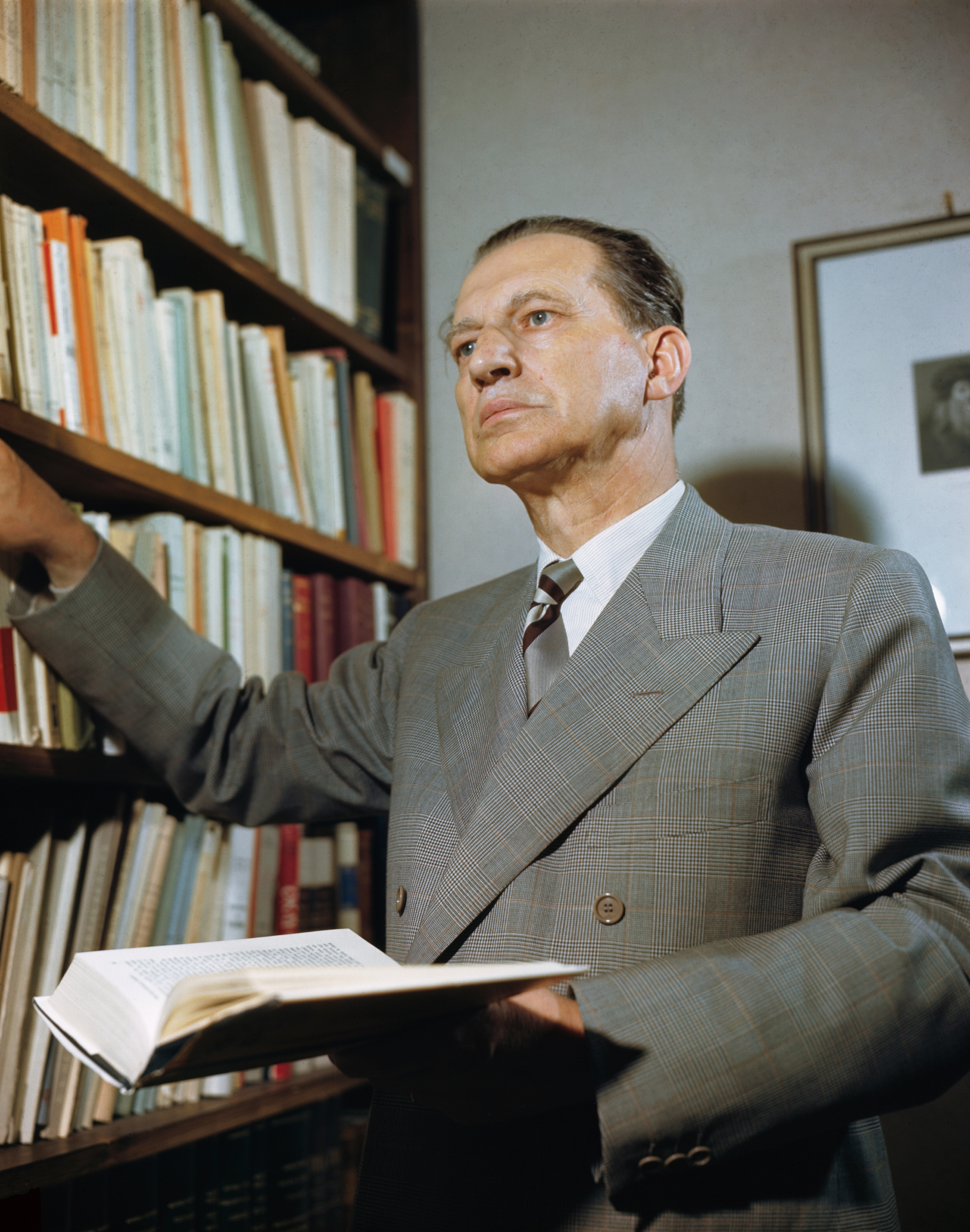 Alcide De Gasperi